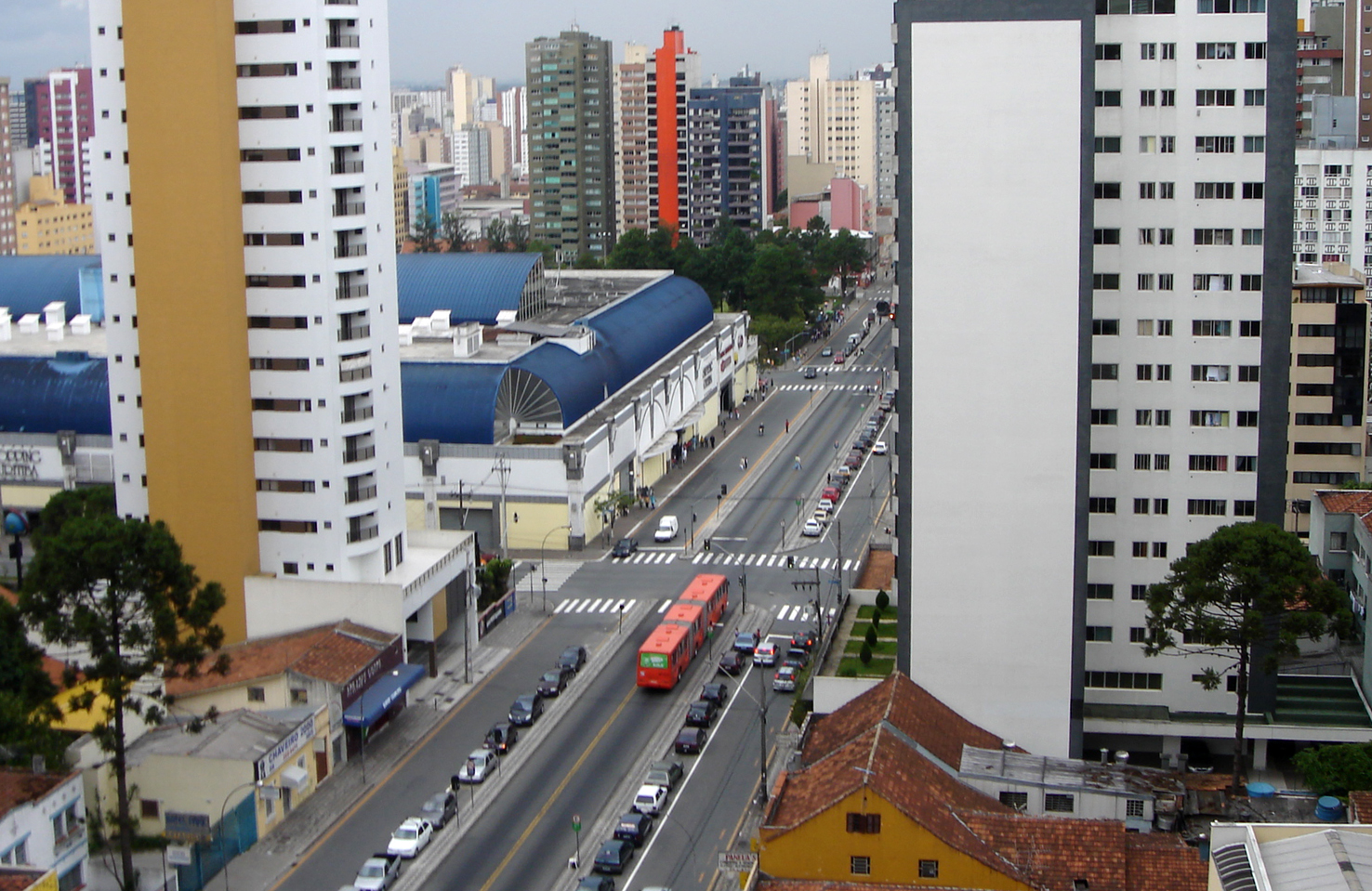 Bi-articulated bus in exclusive central bus lane at Ave. 7 de setembro (South trunk line) near Curitiba Shopping, RIT Curitiba, Brazil.